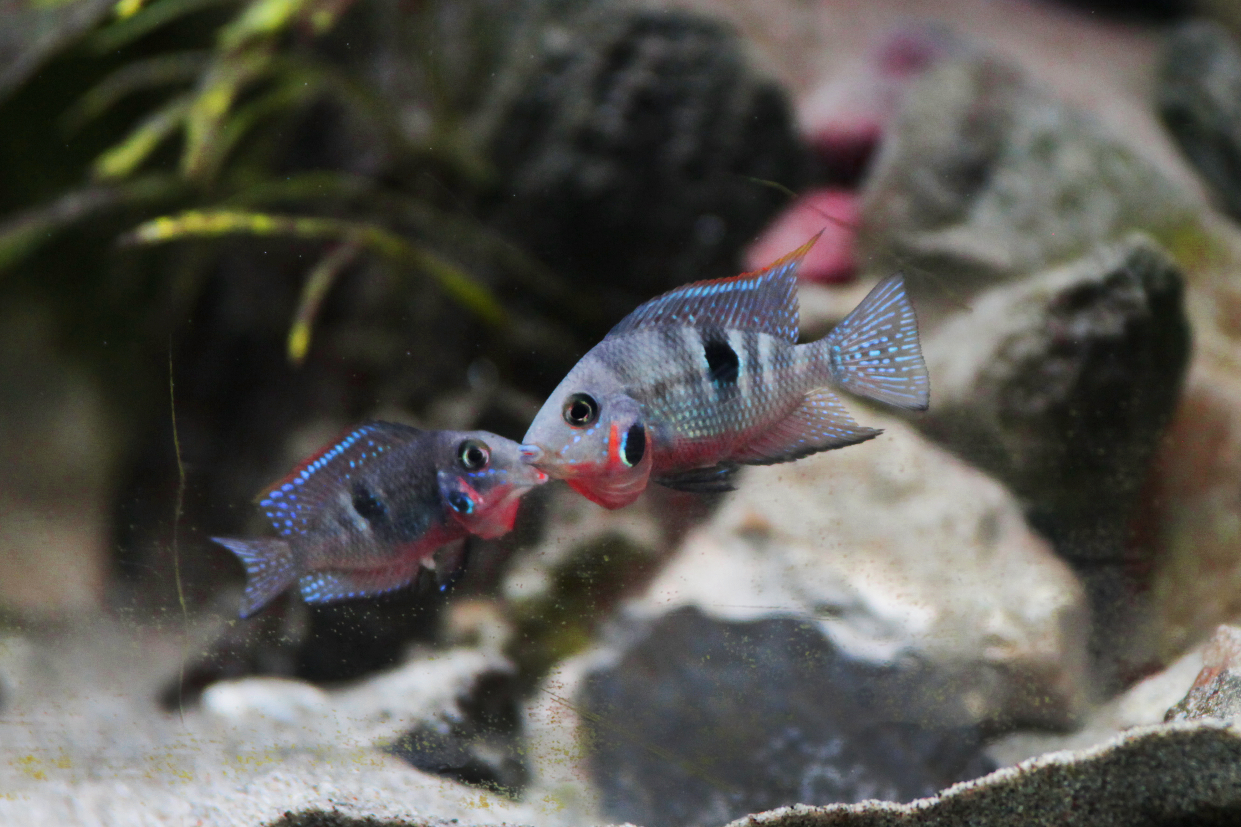 Thorichthys meeky - breeding